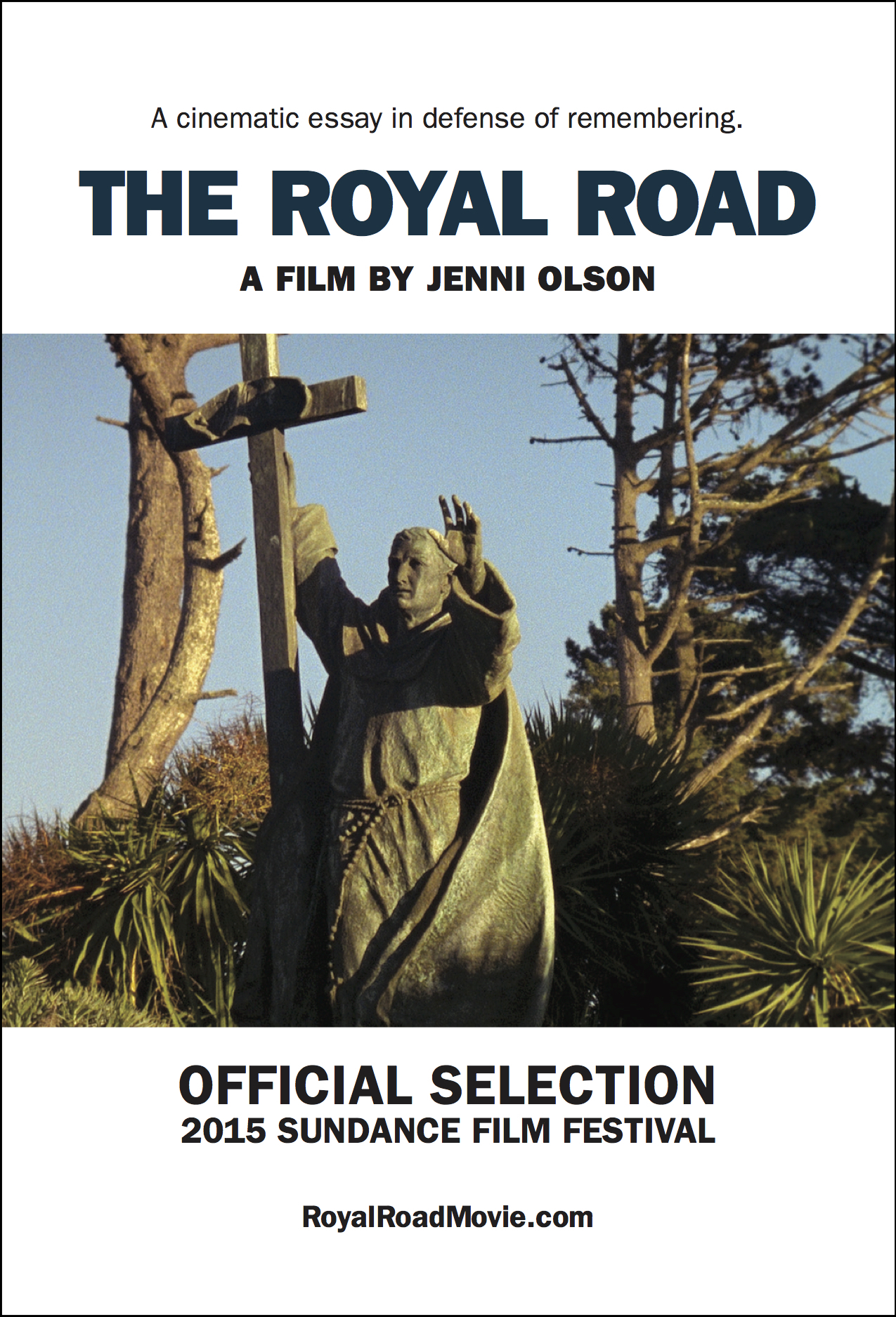 Original movie poster for Jenni Olson's 2015 film, The Royal Road